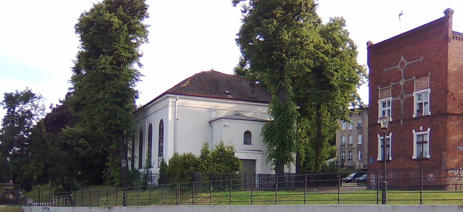 Ex-Mennonite, now Pentecostal Church in Gdansk